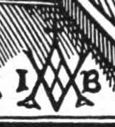 monogram I V A B (Iodocus Van Asche Badius) on the lower part in a woodcut from 1508 representing the 'Praelum Ascensianum' (Van Assche printer workshop) - Ascensianus is the Latin translation of Van Asche or Van Assche